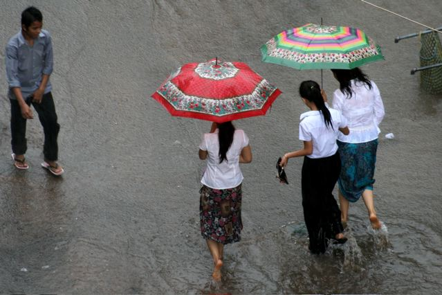 Rainfall in Phnom Penh, 2007.